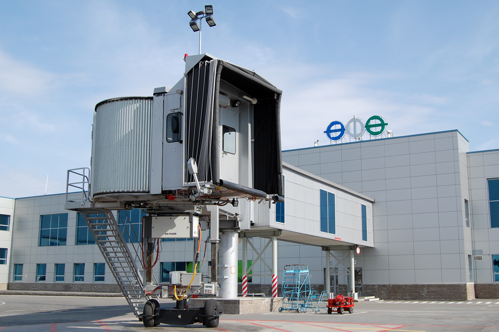 Ufa International Airport